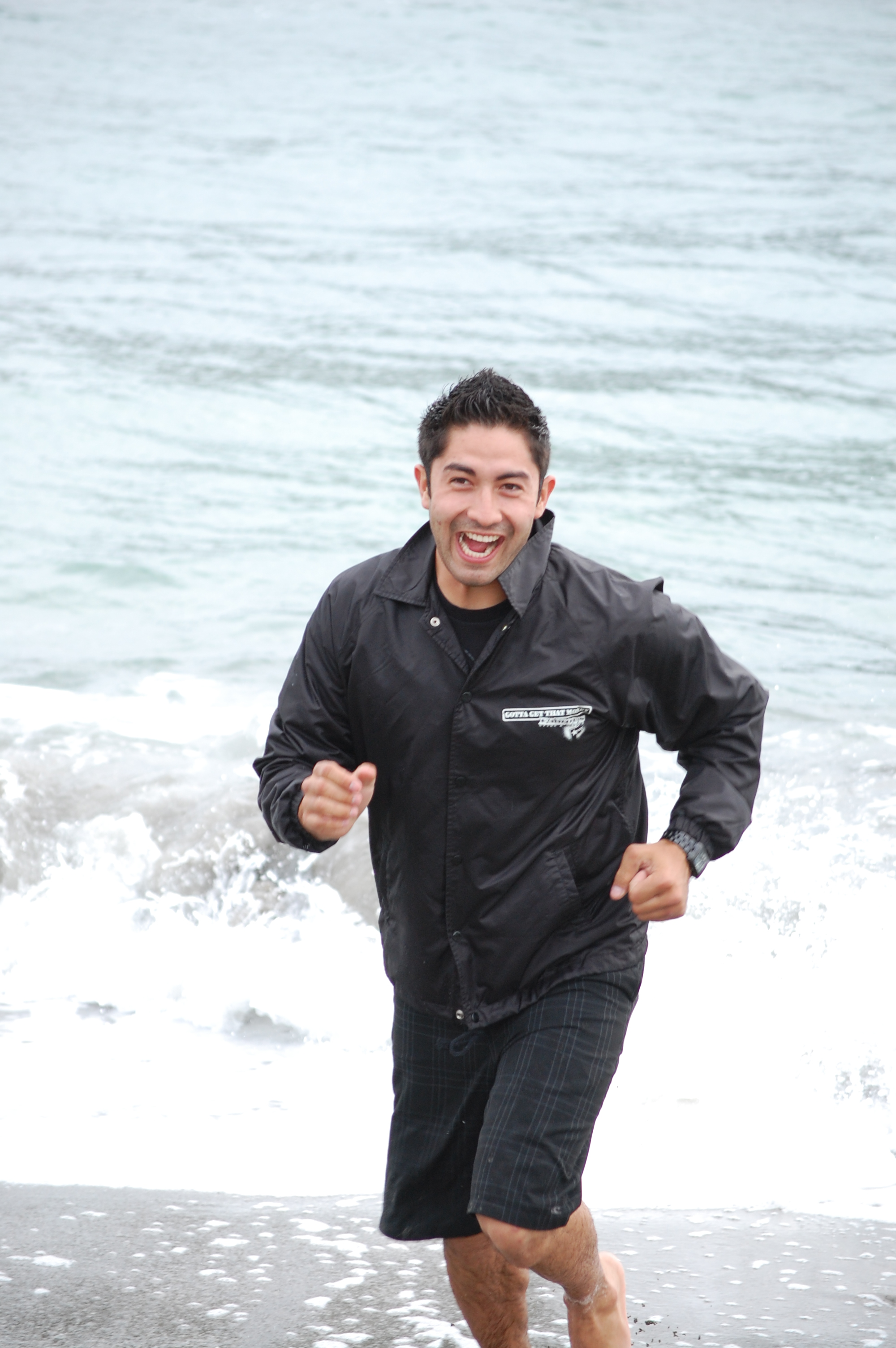 David Kamo at the Oregon Coast June 13, 2009